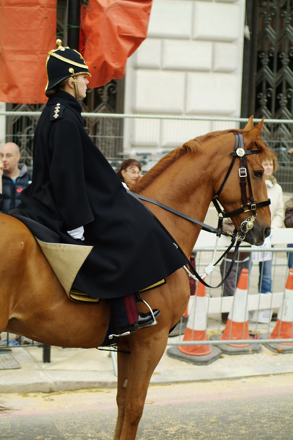 Lord Mayor's Show, London 2006